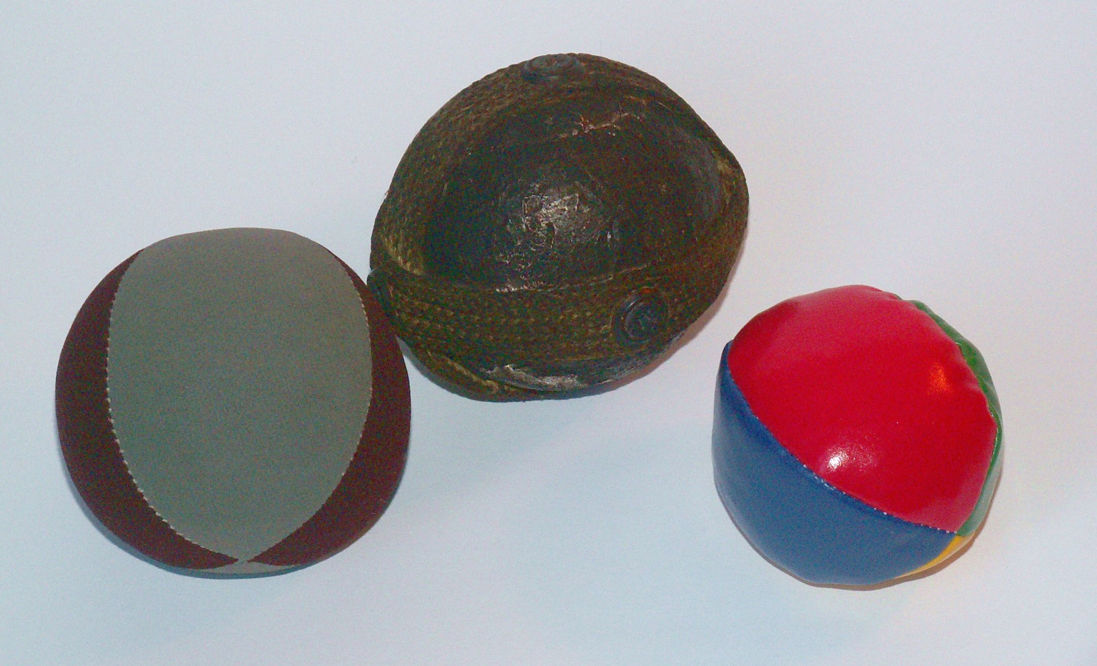 Image of my juggling balls. Right a small, cheap one. Left a more expensive one. And the middle is a kevlar fire ball.